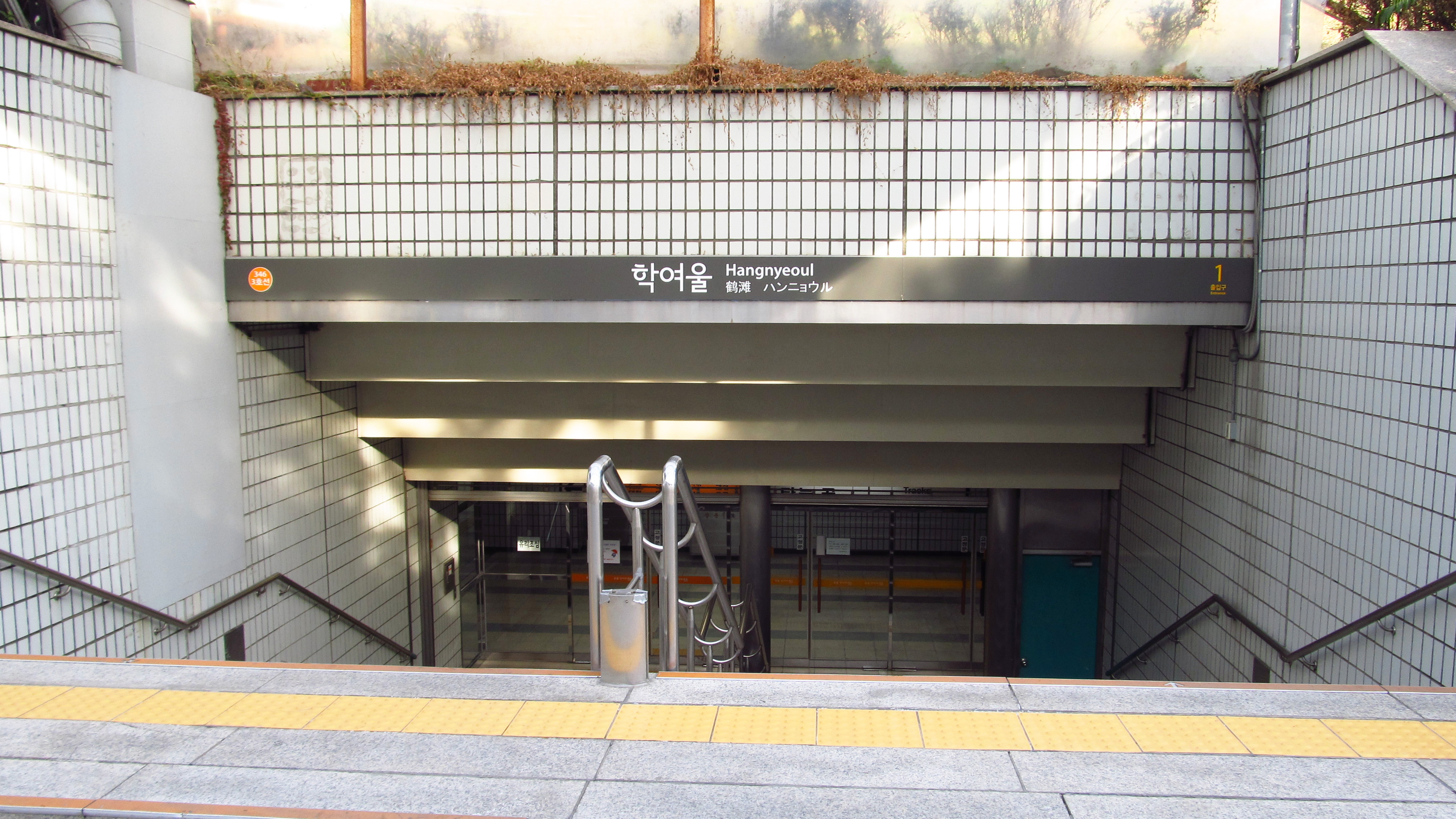 The no.1 entrance to Hangnyeoul Station on Seoul Subway Line 3 in Gangnam-gu, Seoul, Republic of Korea(South Korea)